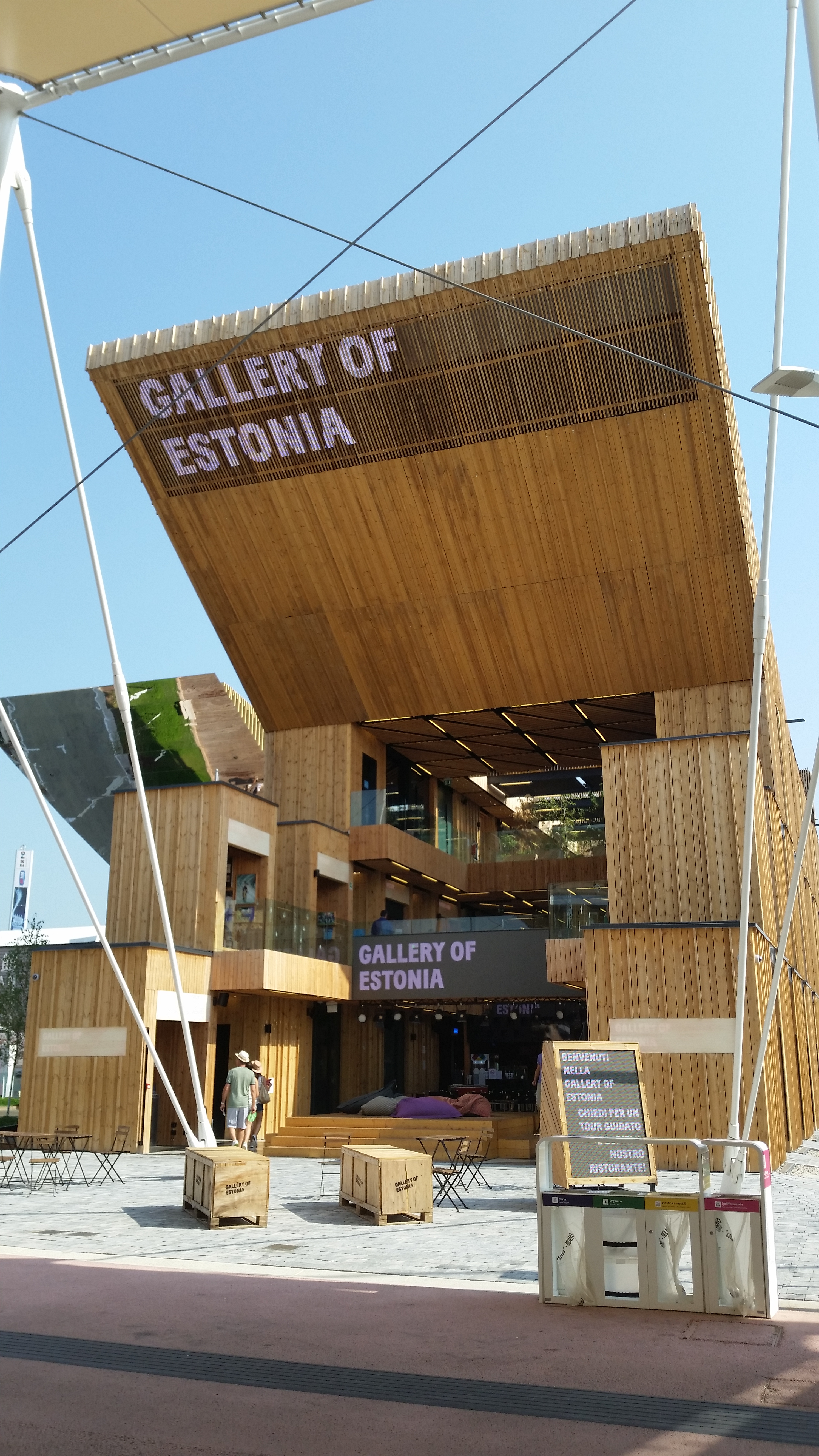 Pavilion of the Expo 2015 located in Milano (Italy)